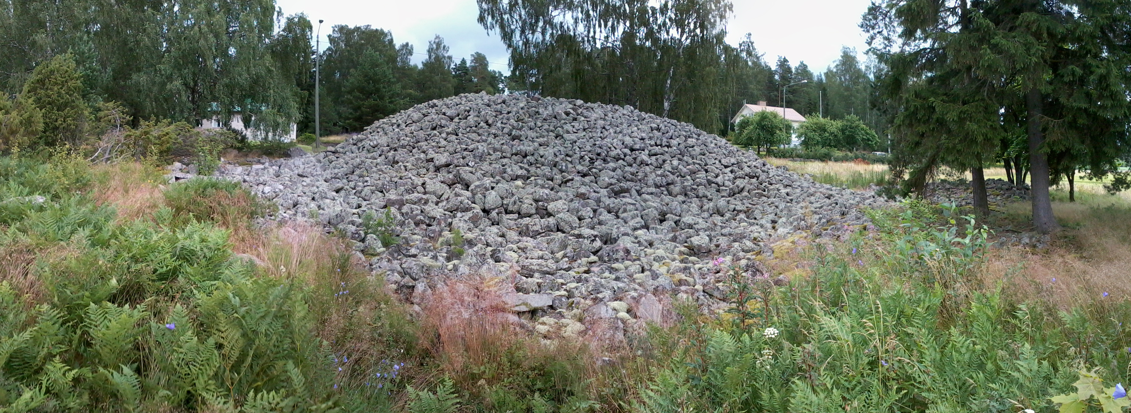 Kings Grave in Panelia, Finnland, brons age cairn